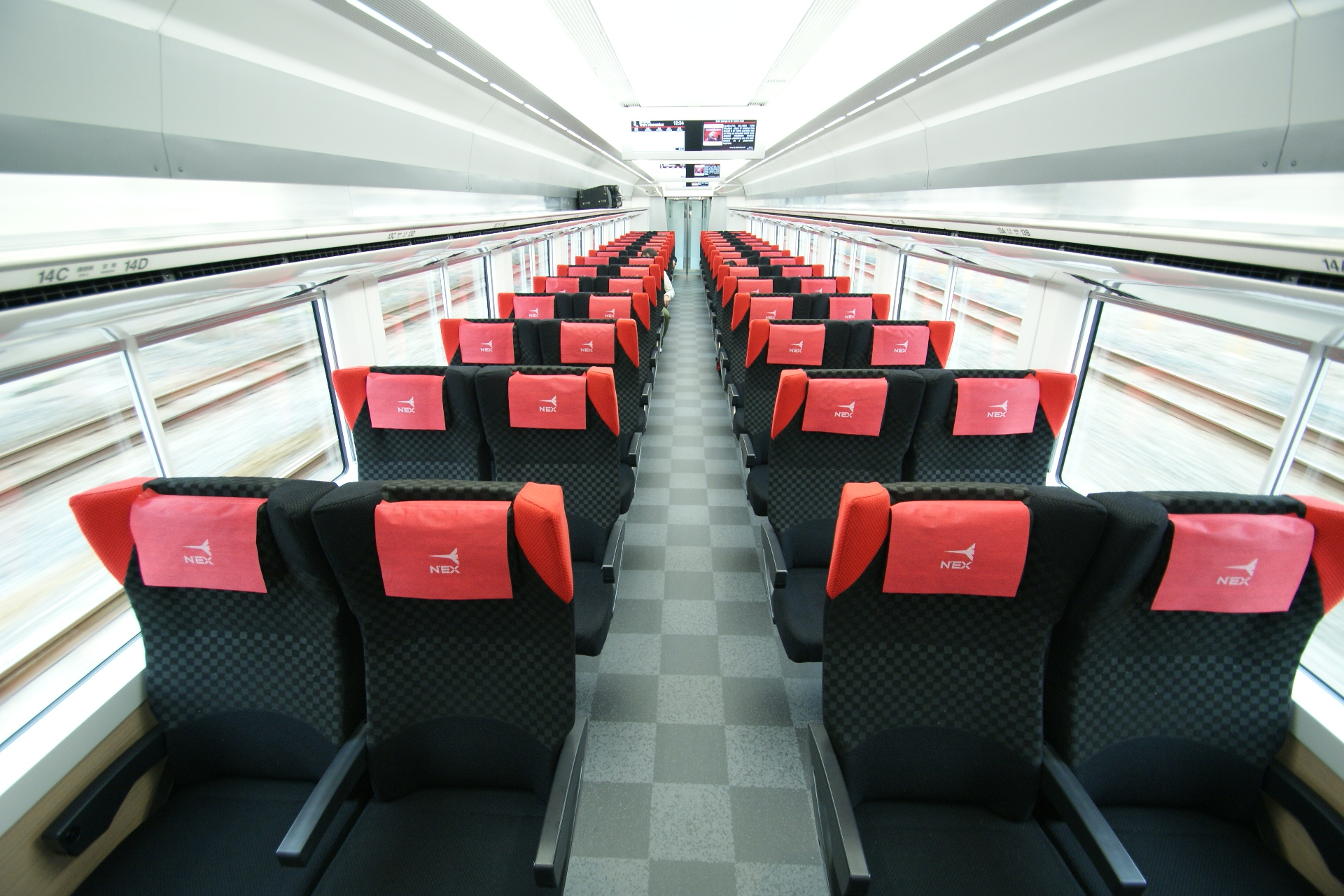 Interior of JR East E259 series "Narita Express" standard-class car